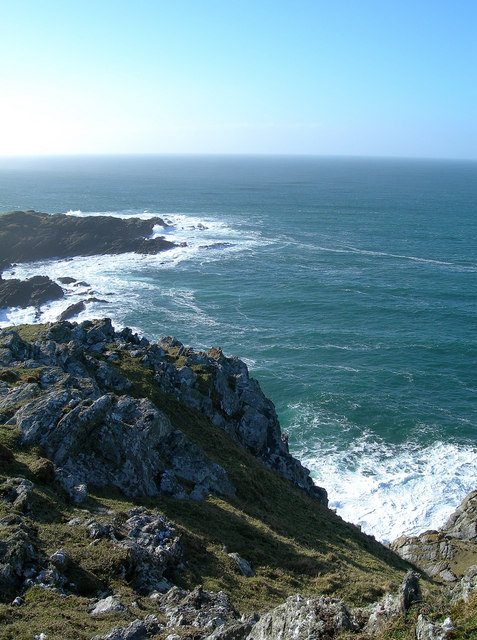 Down From Rubha Lamanais